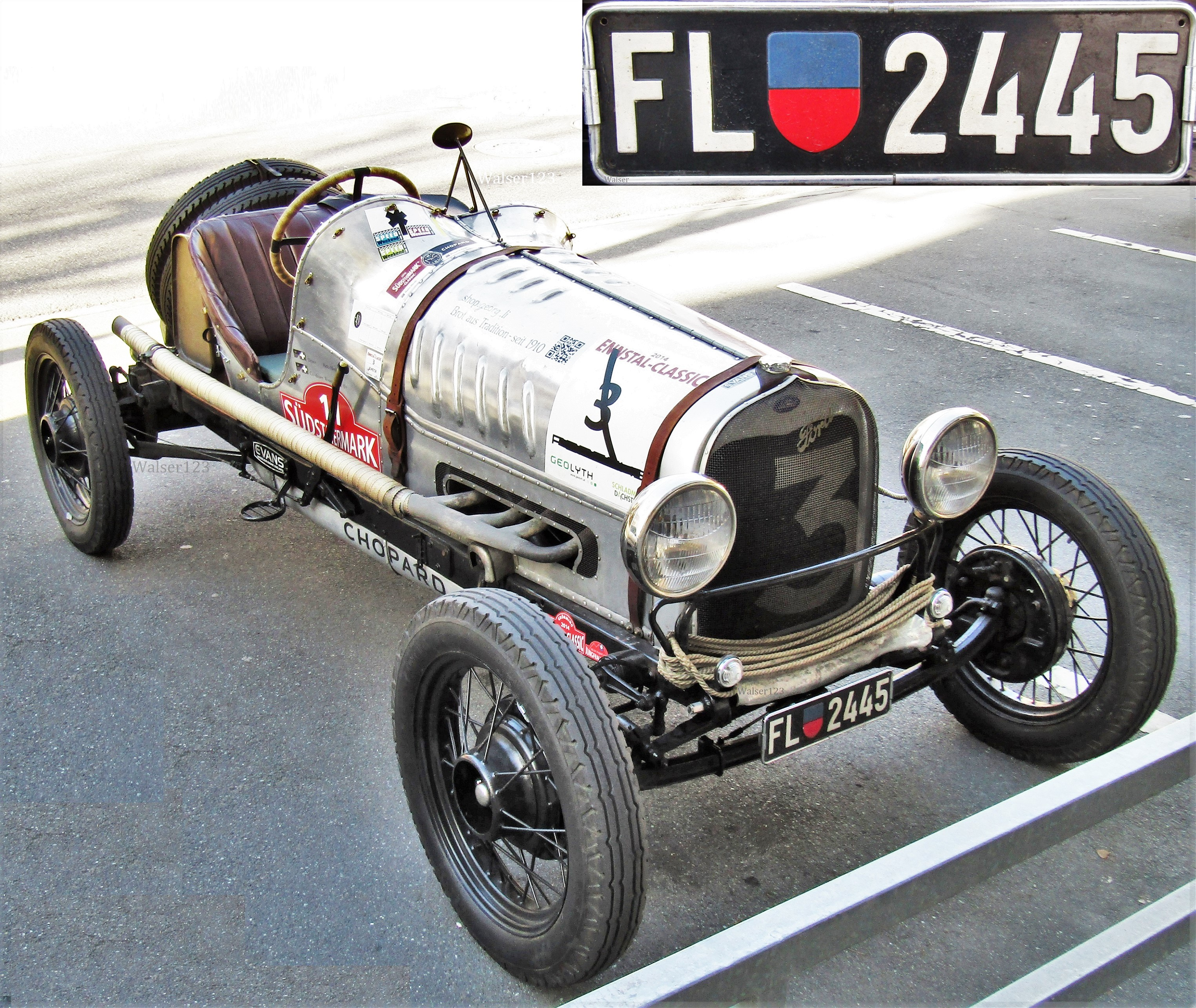 FL 2445Ford Model A Special Racer (1929) with old FL license plate, seen in Vaduz.1920s style license plate, with blue/red crest, very rare, possibly the only one.